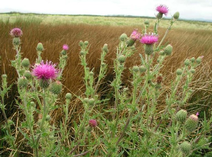 Cirsium hydrophilum var. hydrophilum — Critically Endangerd species of thistle. Endemic to California, in the San Francisco Bay Area and the Sacramento-San Joaquin River Delta. USFWS photo, no copyright